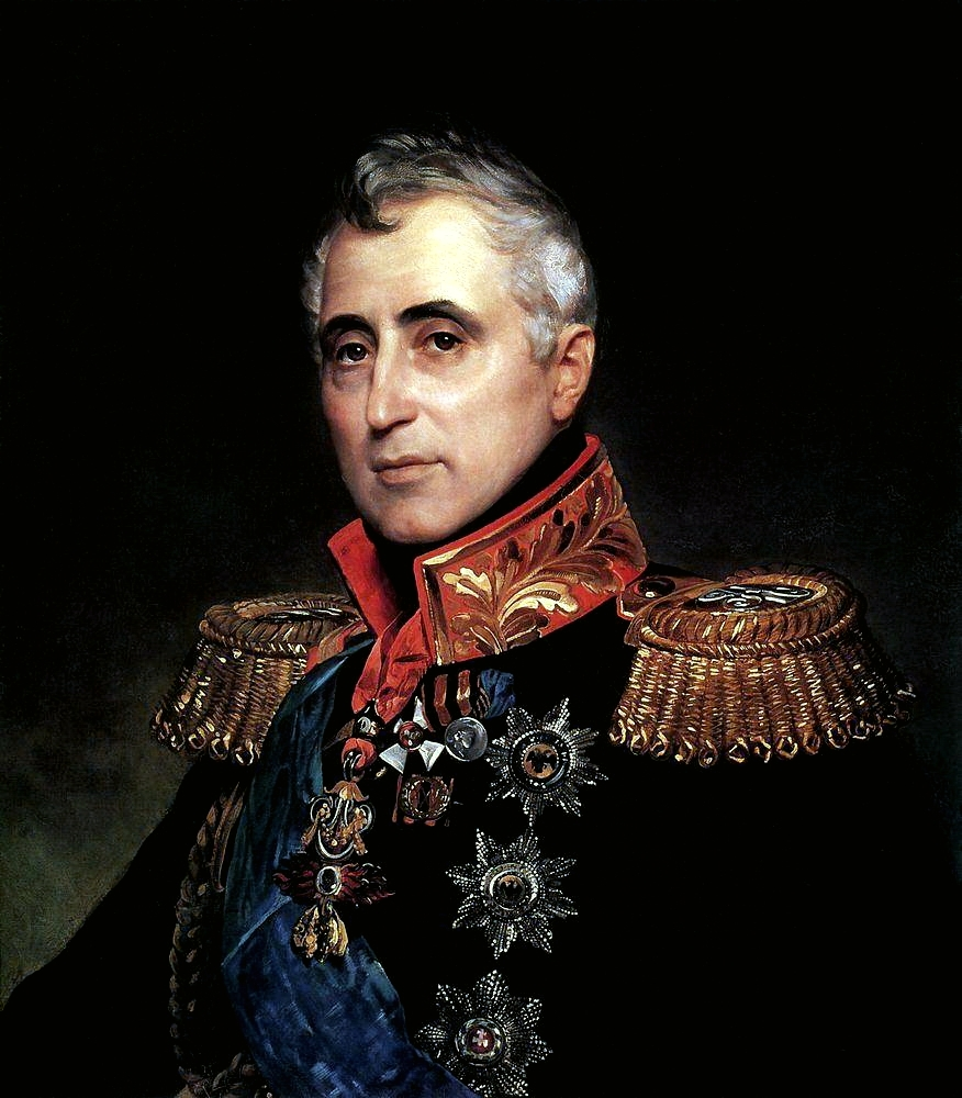 Portrait of Count C. A. Pozzo di Borgo